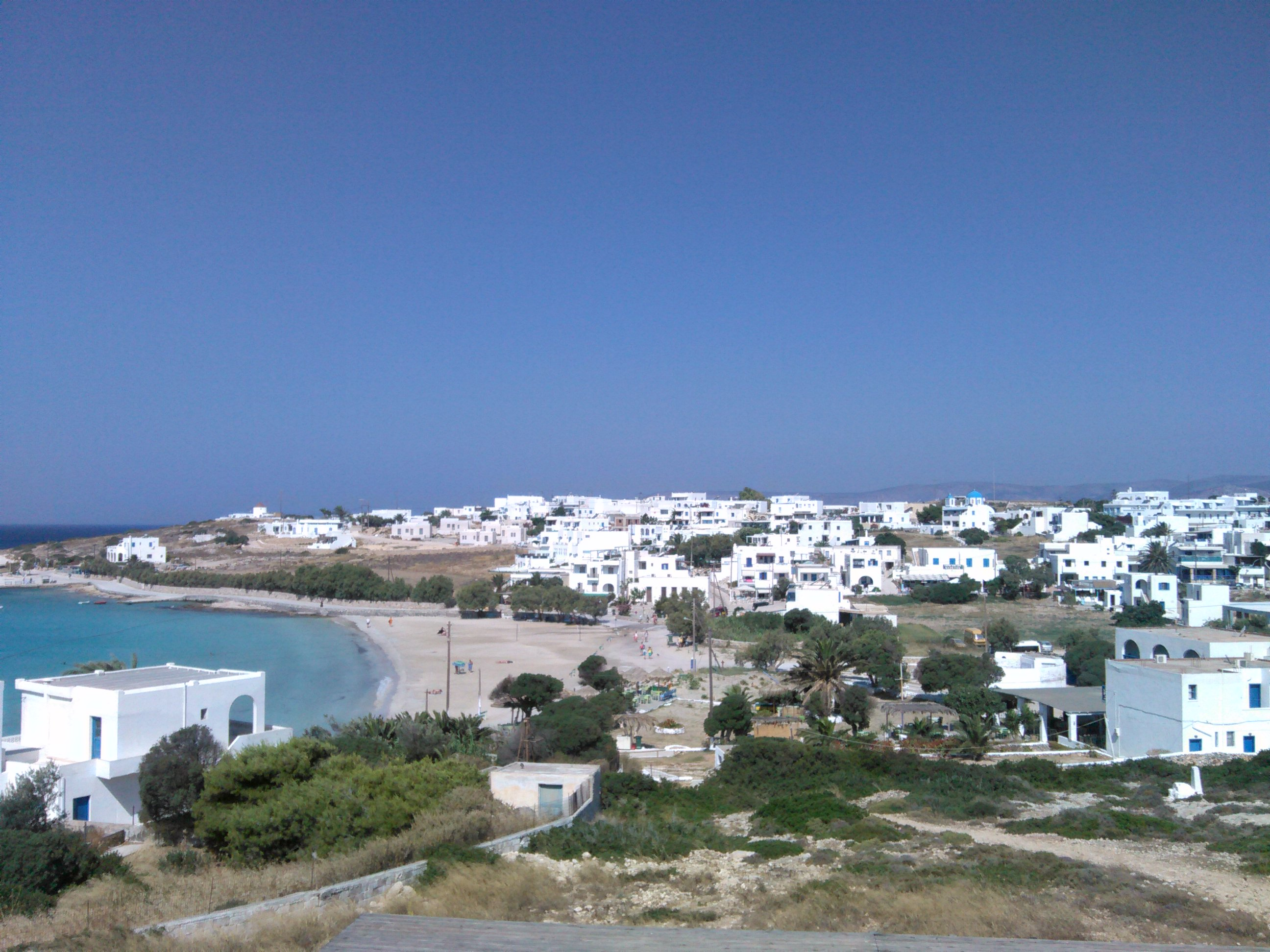 Main view of Koufonisia village